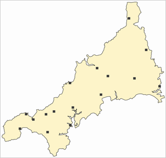 Map of Cornwall, Unted Kingdom, with major settlements located